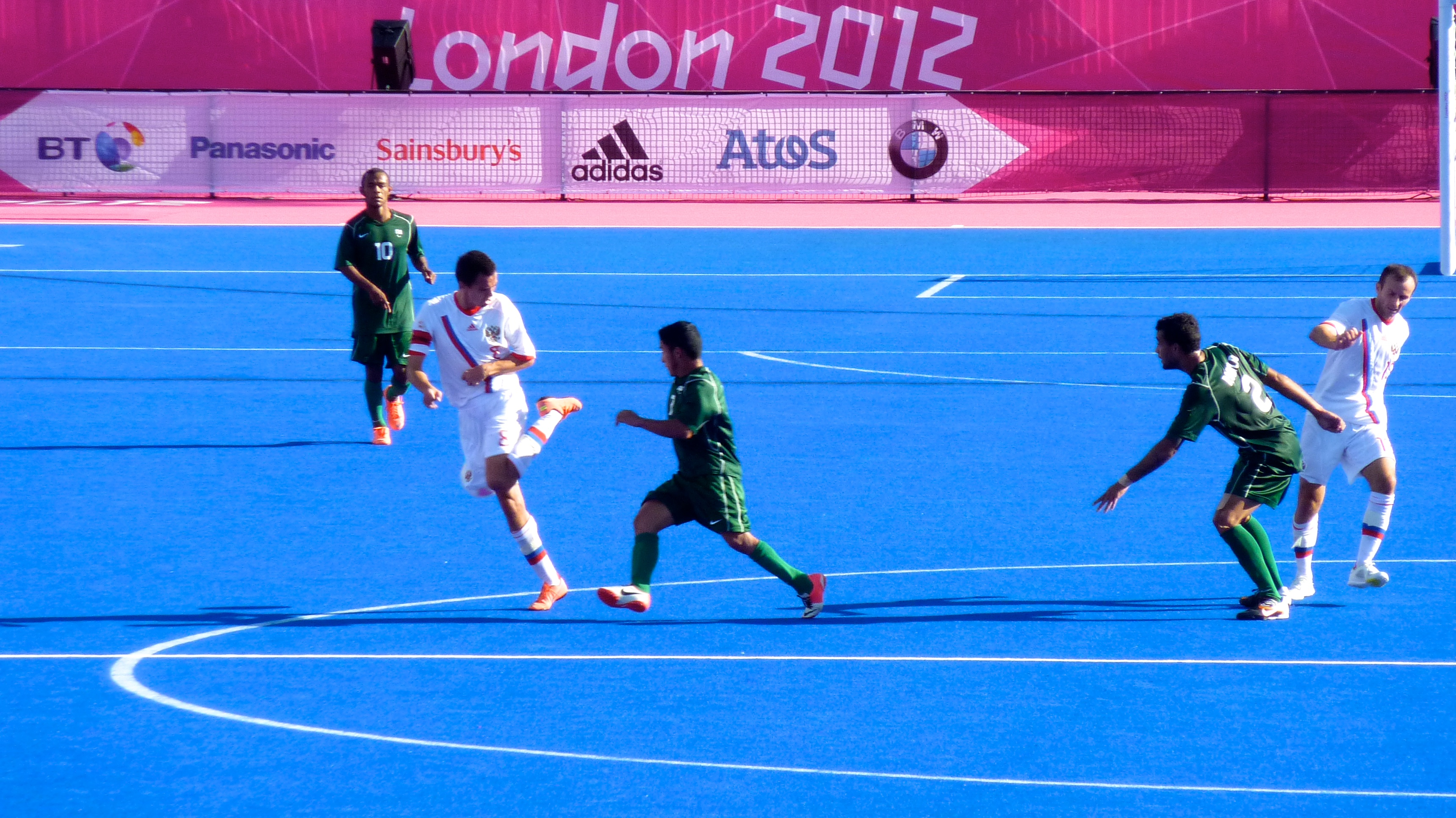 A Russian player competes to maintain the ball